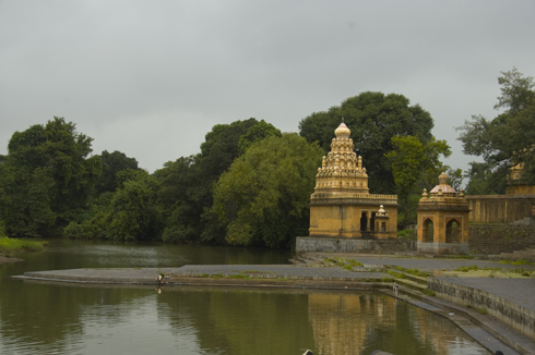 wai ghat